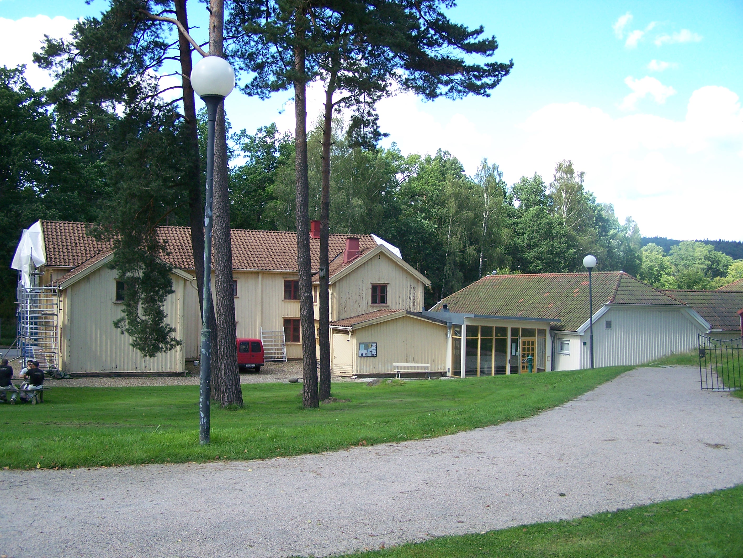 The backyard of Nymanska gården ("Newman's estate") from the beginning of the 18th century, today the entrance to Borås Museum in the open air museum of Ramnaparken in the city of Borås, Sweden. The building and museum has been put together with Olssonska gården from the 19th century Borås.